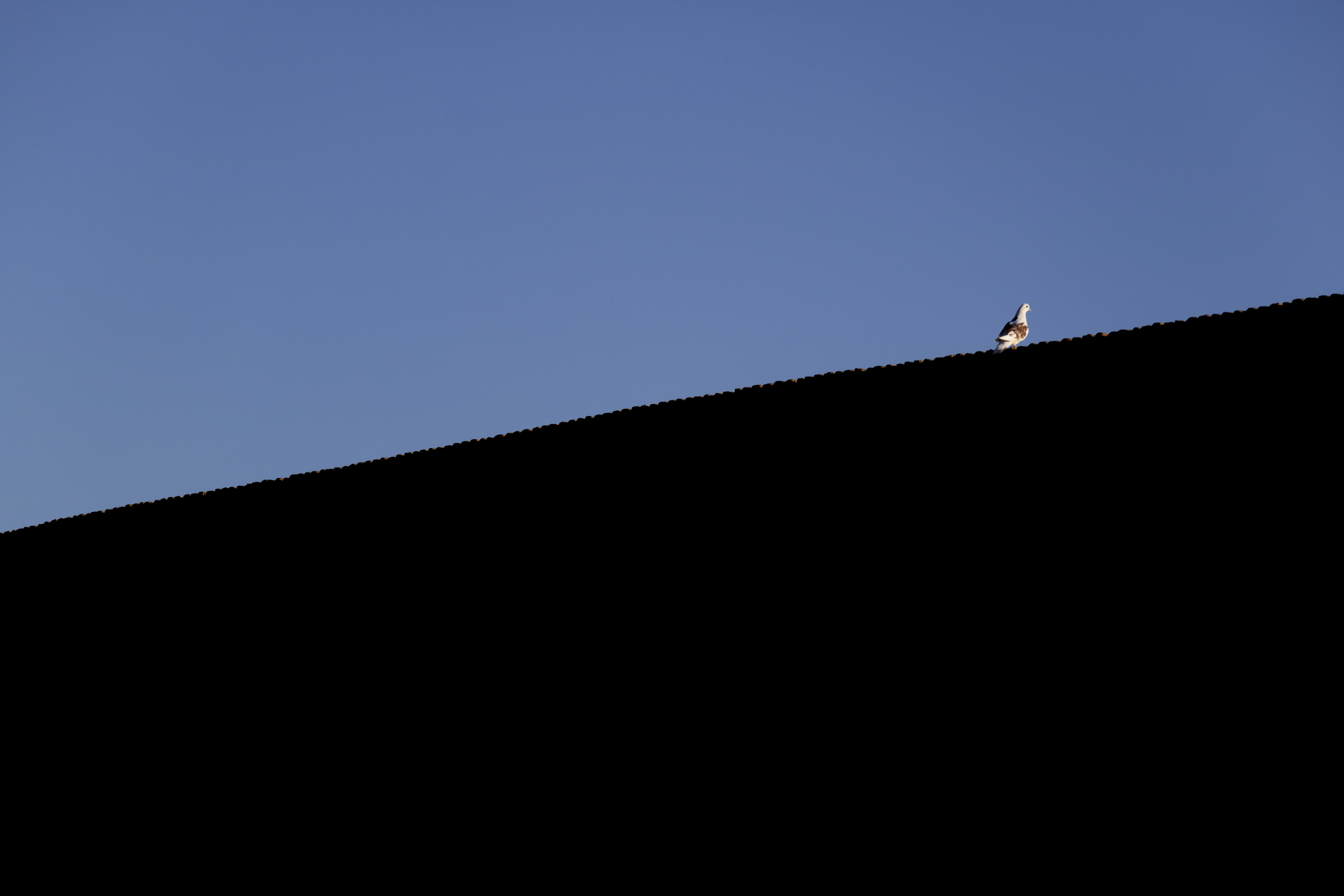 Deir-e Gachin Caravansarai is one of the greatest caravansarais of Iran which is located in the center of Kavir National Park. Its unique qualities is the reason it is called “Mother of Iranian Caravansarais”. It is located in the Central District of Qom County, 80 kilometers north-east of Qom (60 kilometers into Garmsar Freeway) and 35 kilometers south-west of Varamin. (Photo by: Mostafa Meraji, wiki loves monuments 2018)